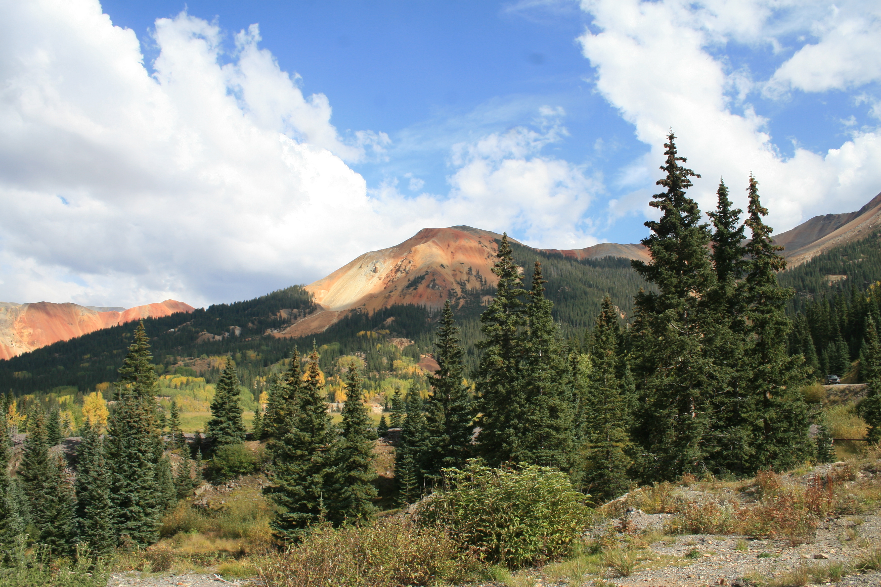 Red Mountain Pass, CO, USA View of Red Mountain #2, 12,219 ft. Trees in foreground are Picea engelmannii.